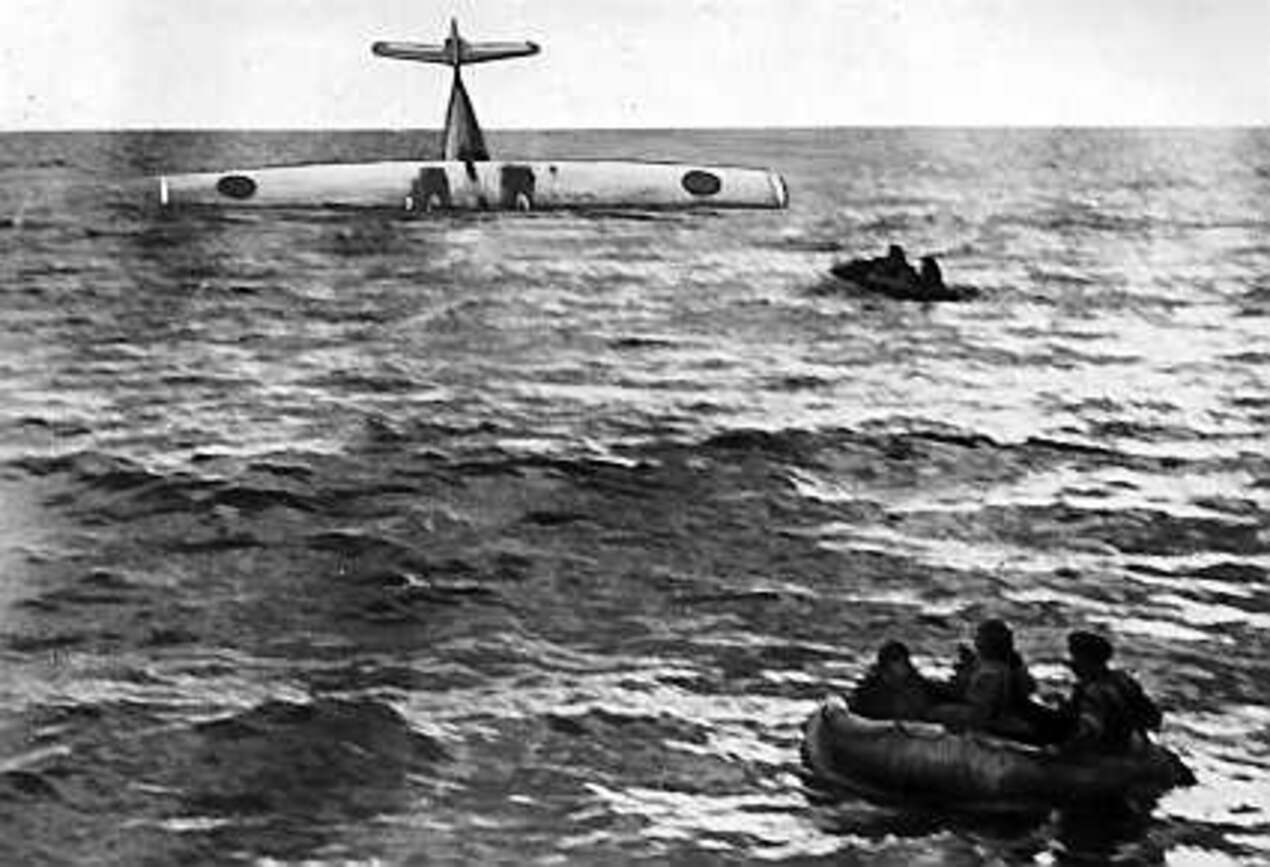 Picture of the Catalina that was shot down by the Soviet.